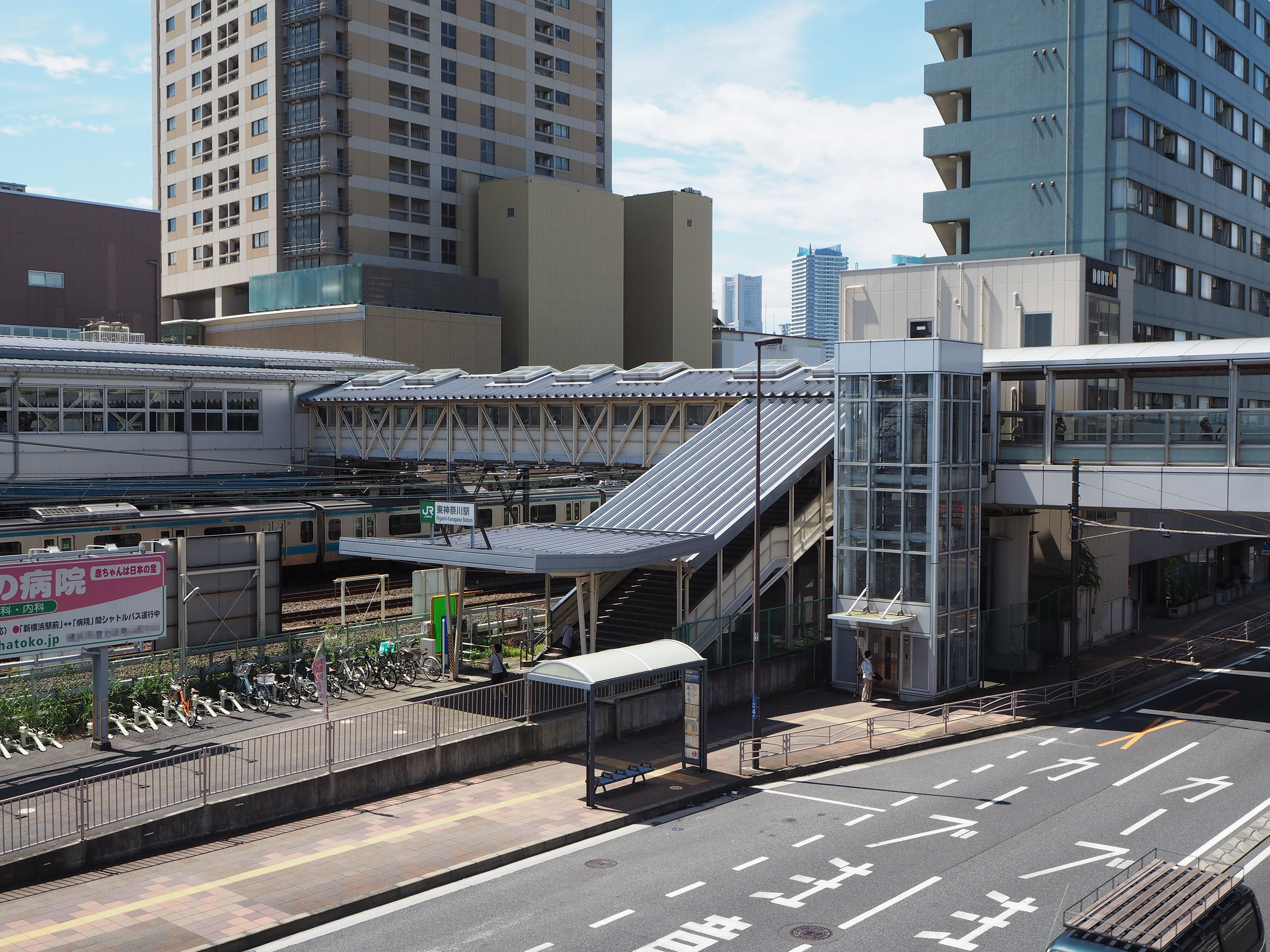 The west entrance to Higashi-Kanagawa Station in Kanagawa Prefecture, Japan